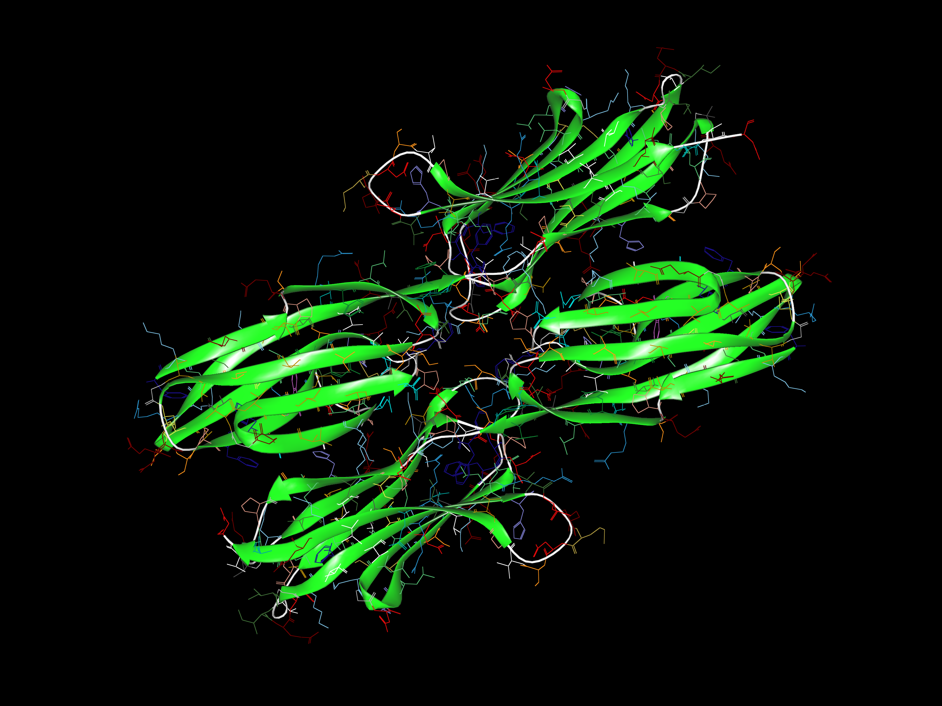 Secondary structure of VCAM-1 protein (adhesion molecule)